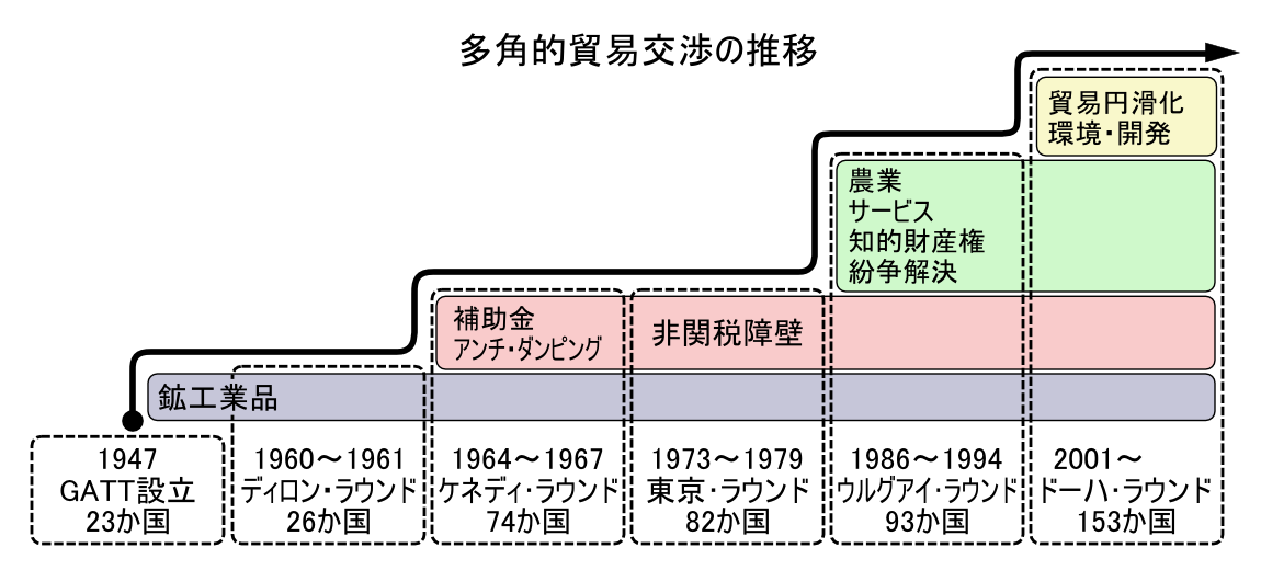 Development Rounds